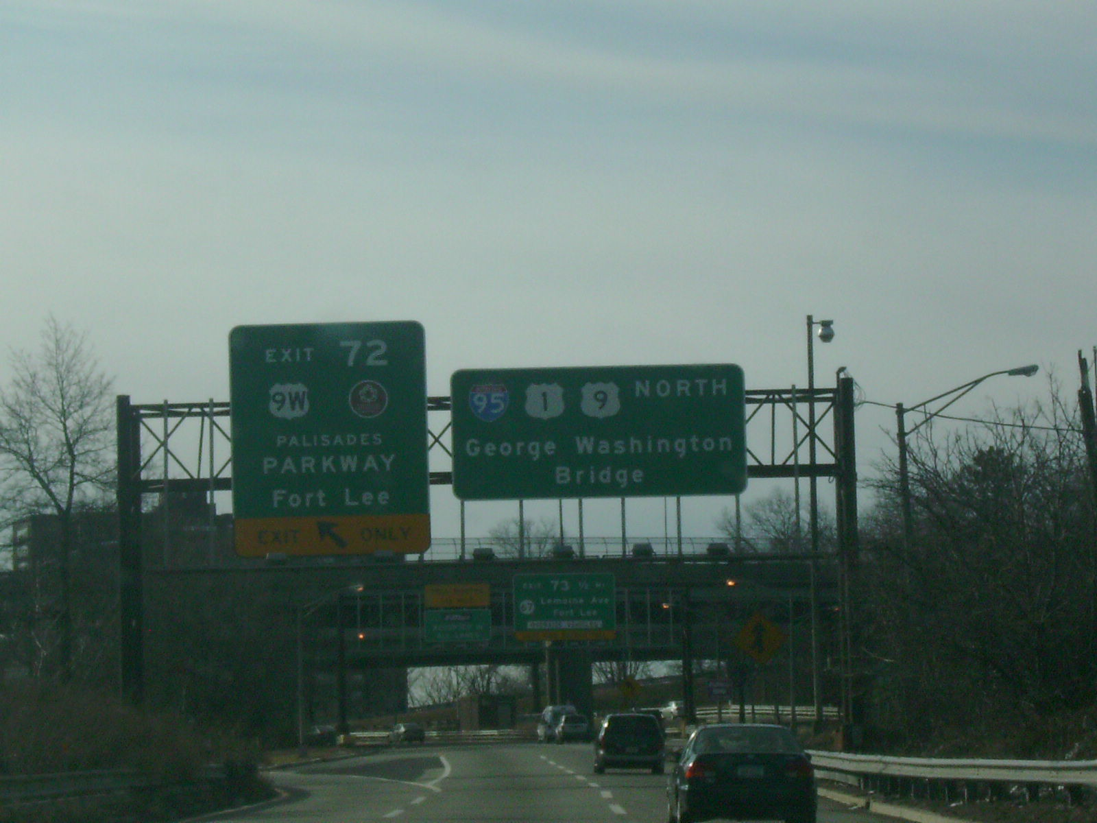 Northbound Interstate 95 at the exit for U.S. Route 9W/Palisades Interstate Parkway (exit 72) in Fort Lee, New Jersey